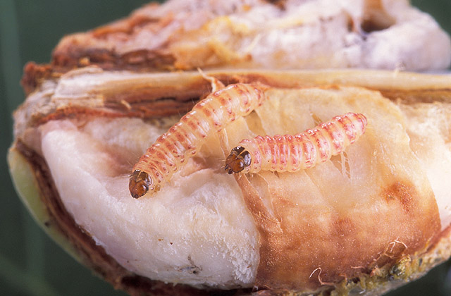 Pink bollworms emerging from a damaged cotton boll.